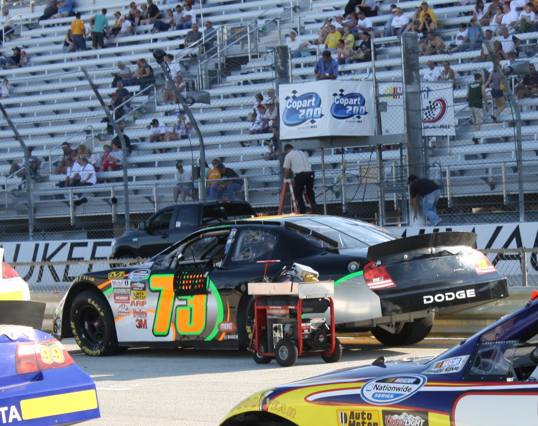 NASCAR driver Derrike Copes Dodge at the 2009 Northern 250 Nationwide Series race at the Milwaukee Mile.